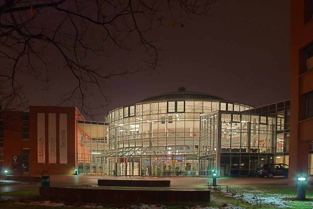 Main entrance of the "DASA"-Building in Dortmund, Germany.